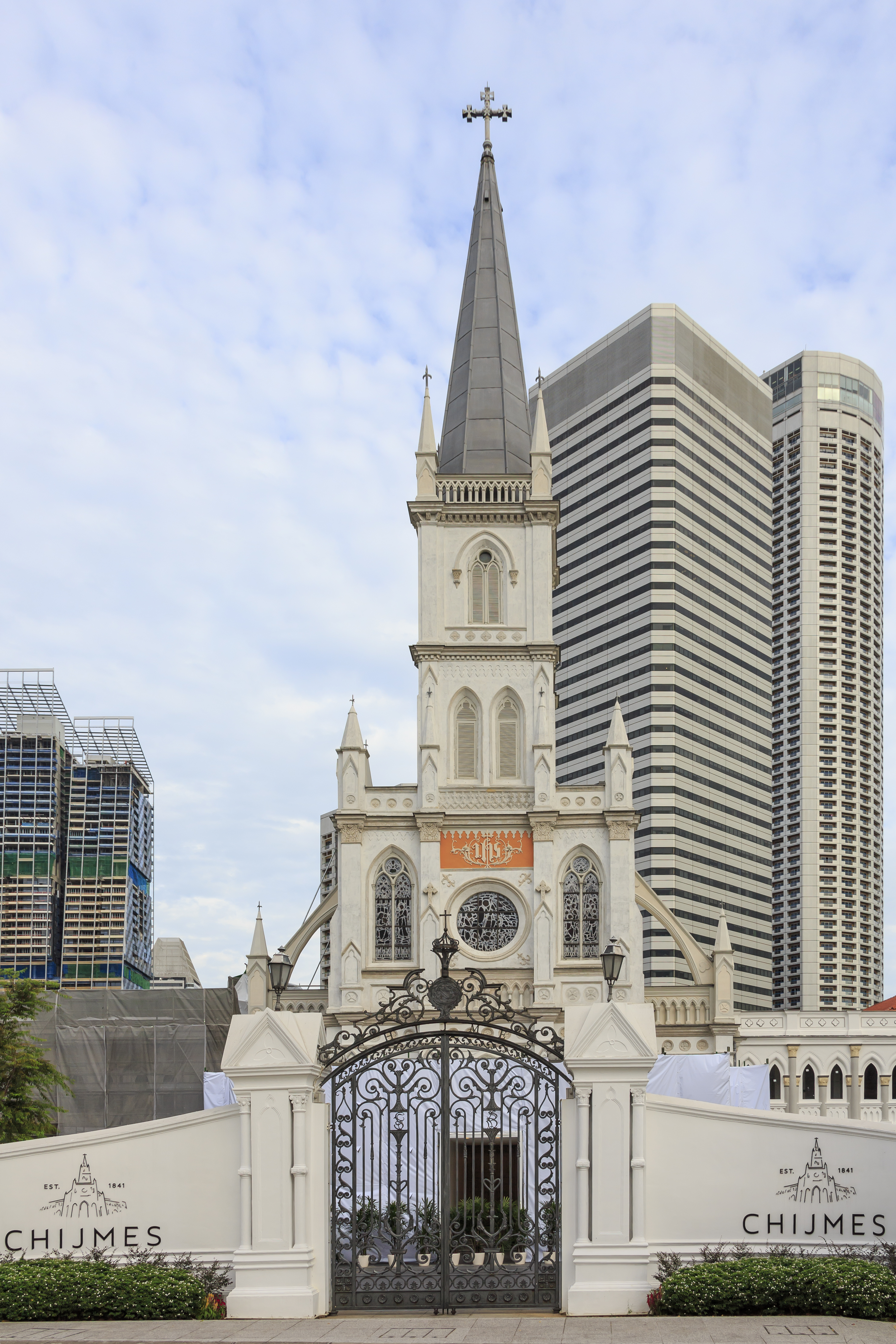 Singapore: CHIJNES, the first site of the Child of the Holy Infant Jesus Missionary English Schools in Singapore